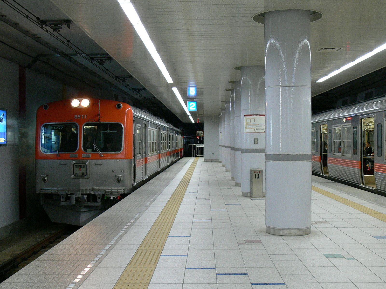 Hokuriku Railroad Asanogawa Line. (Ishikawa Prefecture)